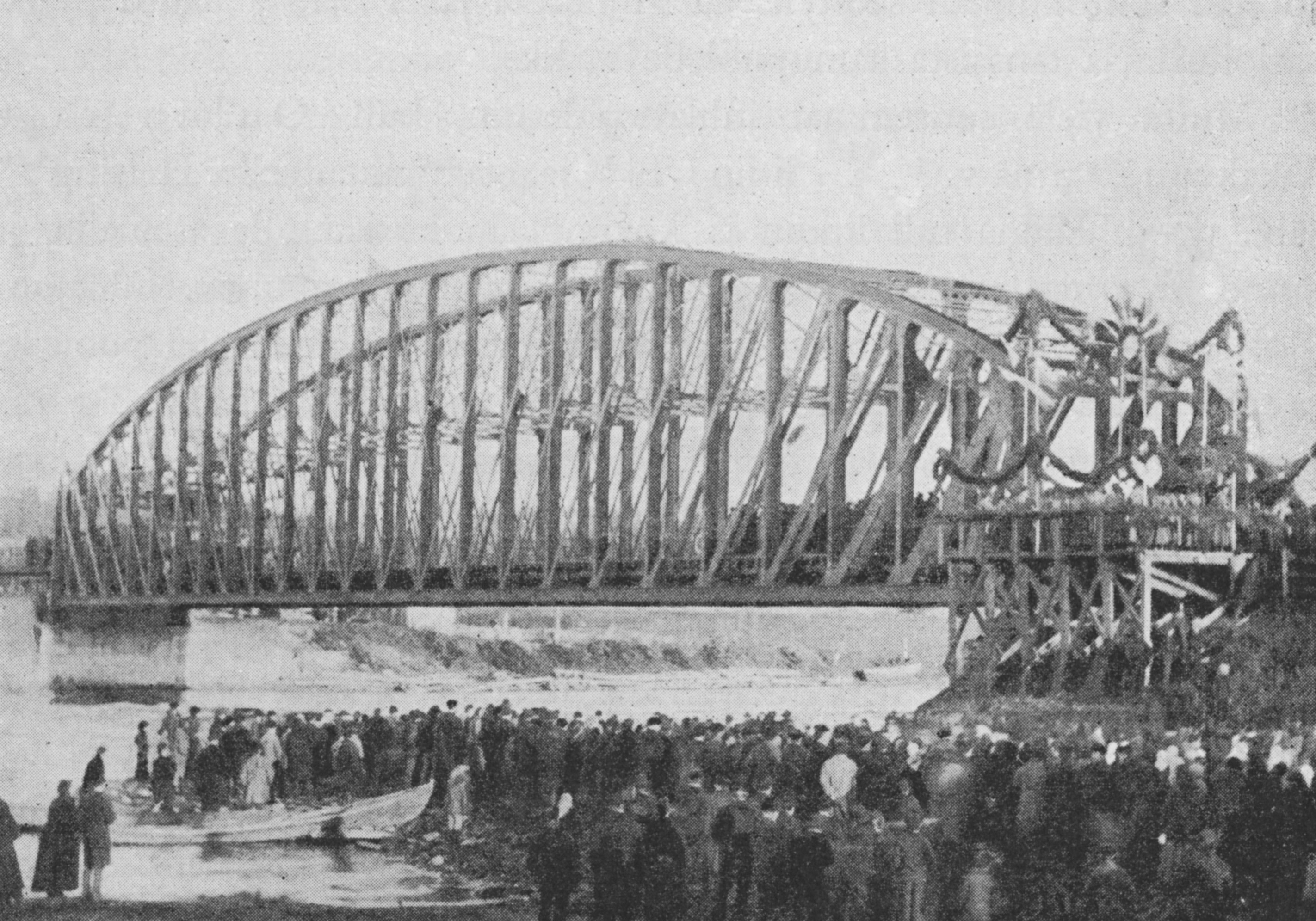 Inauguration of the Oulu railway bridge in October 29 1886.